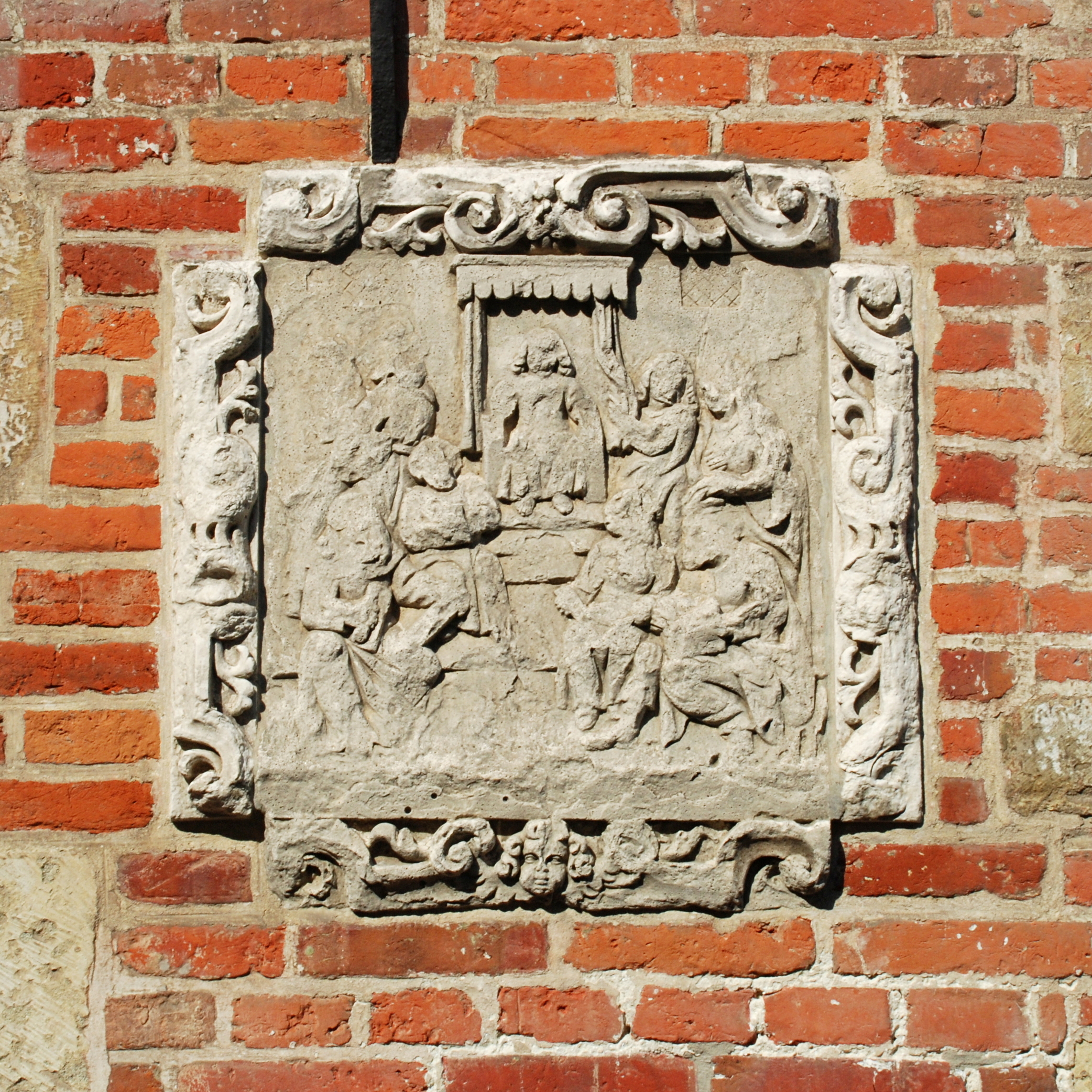 Belgium - Leuven - Groot Begijnhof - Middenstraat n° 54